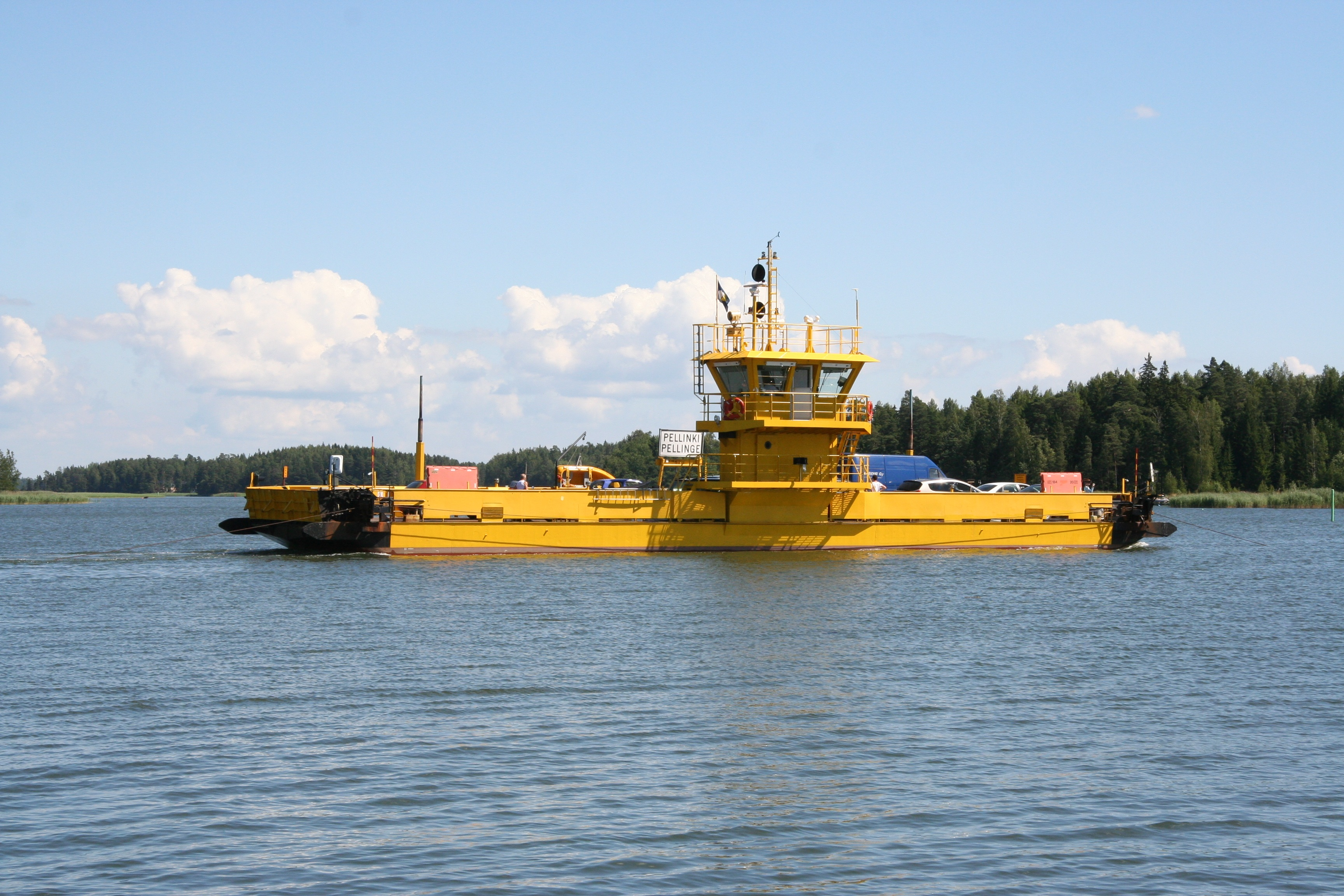 Pellinki ferry, Porvoo, Finland